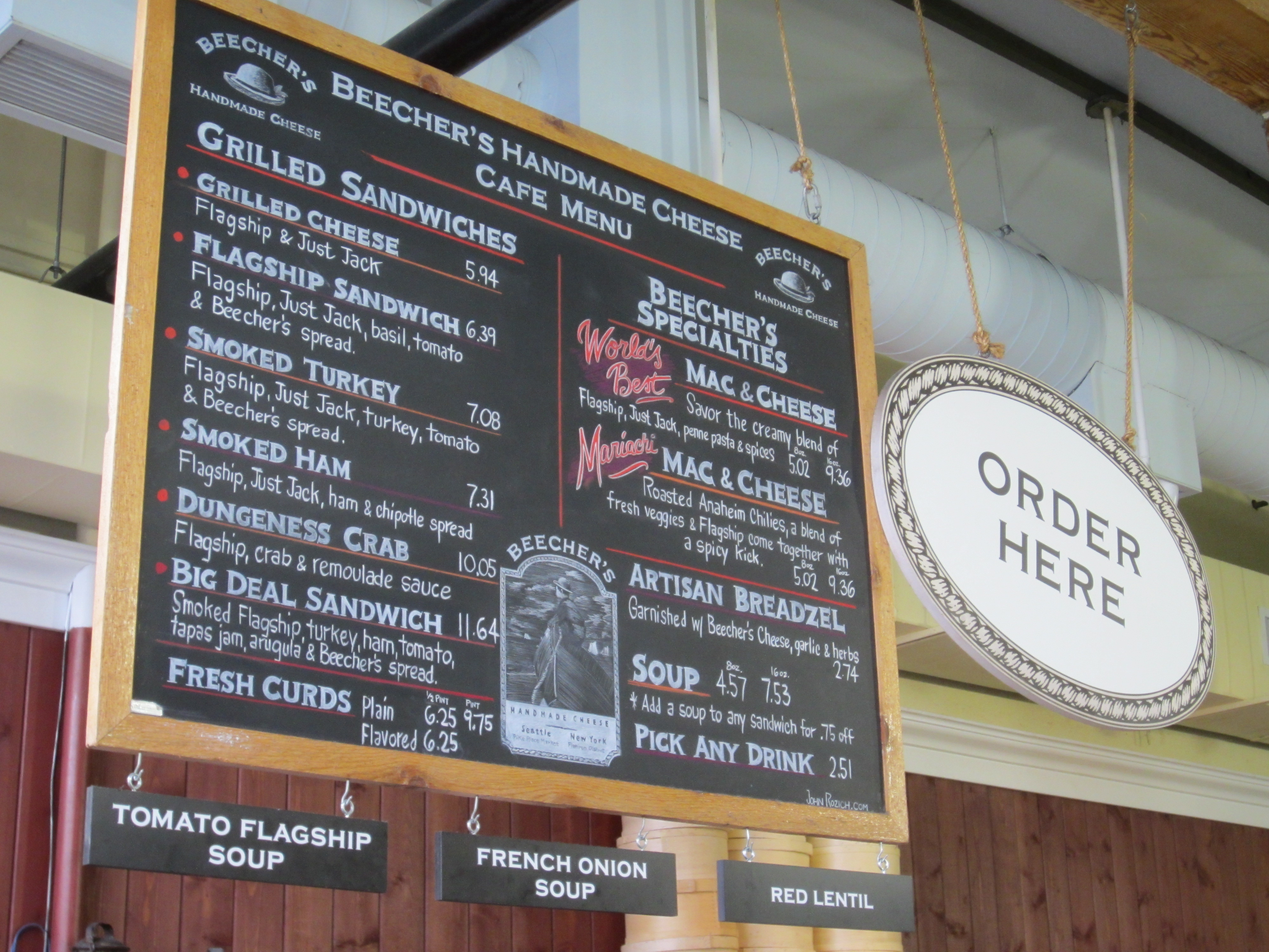 Beecher's Handmade Cheese, Pike Place, Seattle (2014)